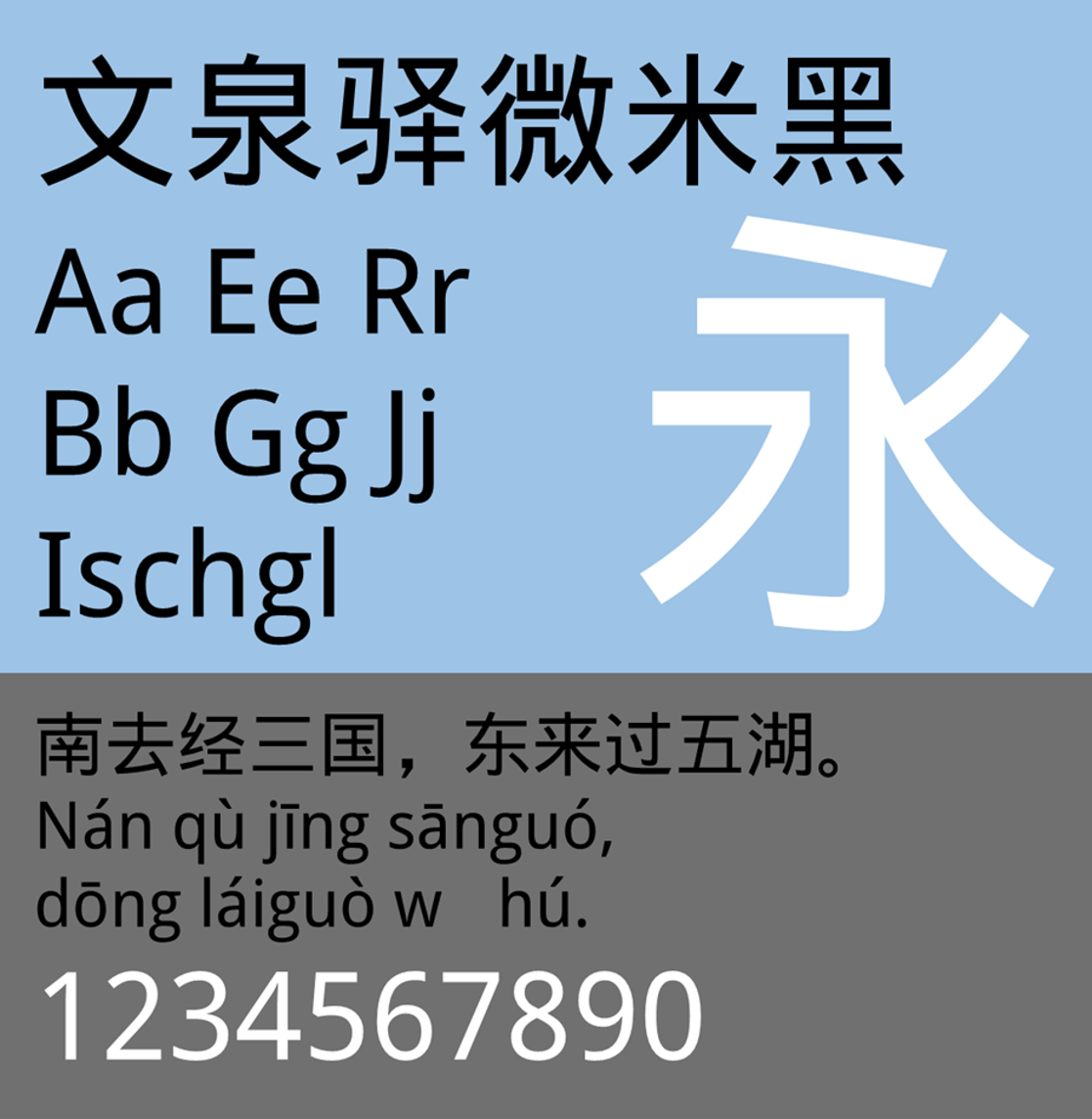 Sample of WenQuanYi Micro Hei font, displayed is WenQuanYi Micro Hei v0.2.0-beta. Shown in picture are Latin alphabets “AaBbEeGgJjRr”, “Ischgl”, Simplified Chinese “南去经三国，东来过五湖。” with its pinyin, and numerals 1-0.